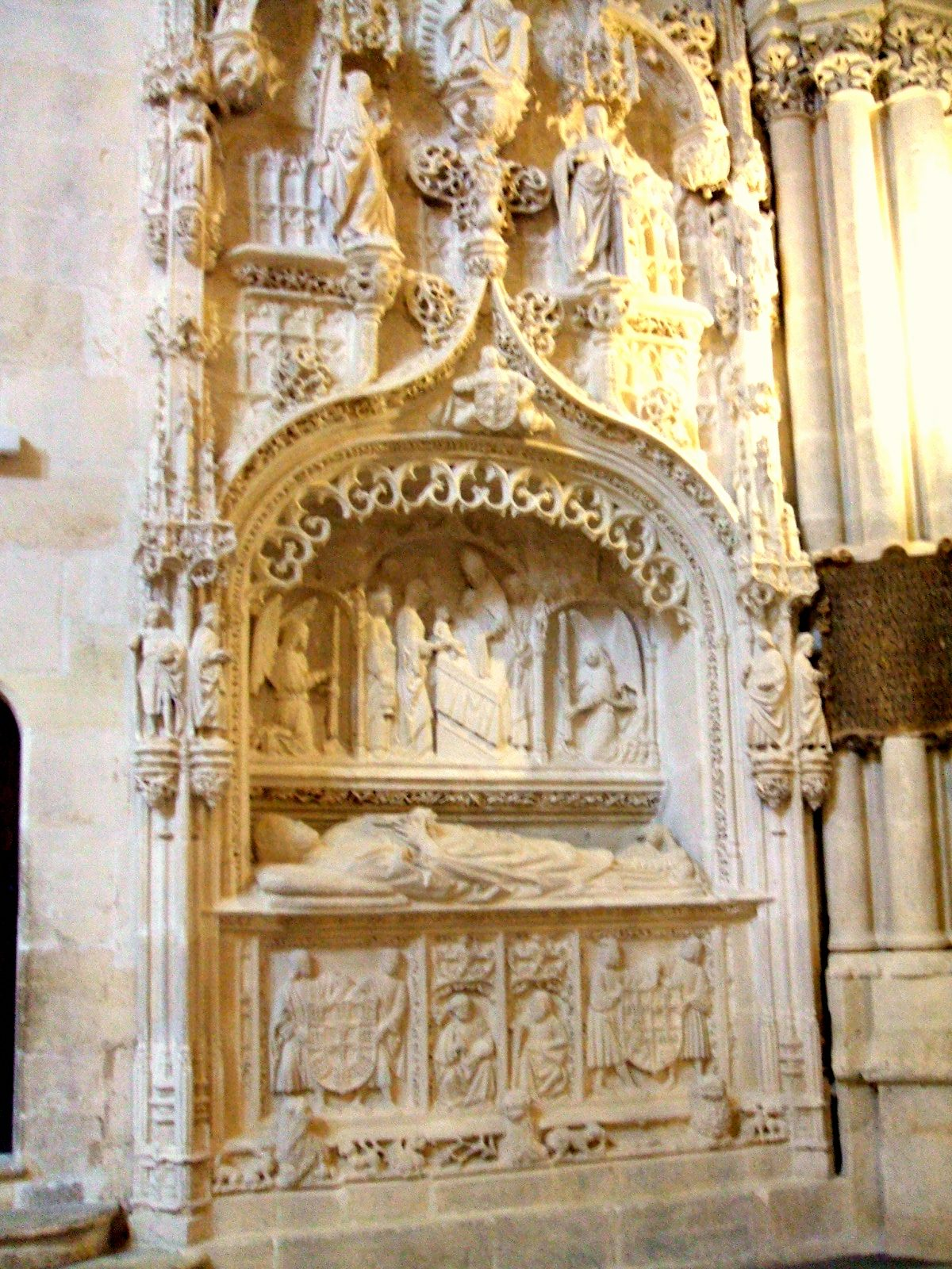 Sepulcro del Arcediano Villegas, en la girola de la Catedral de Burgos